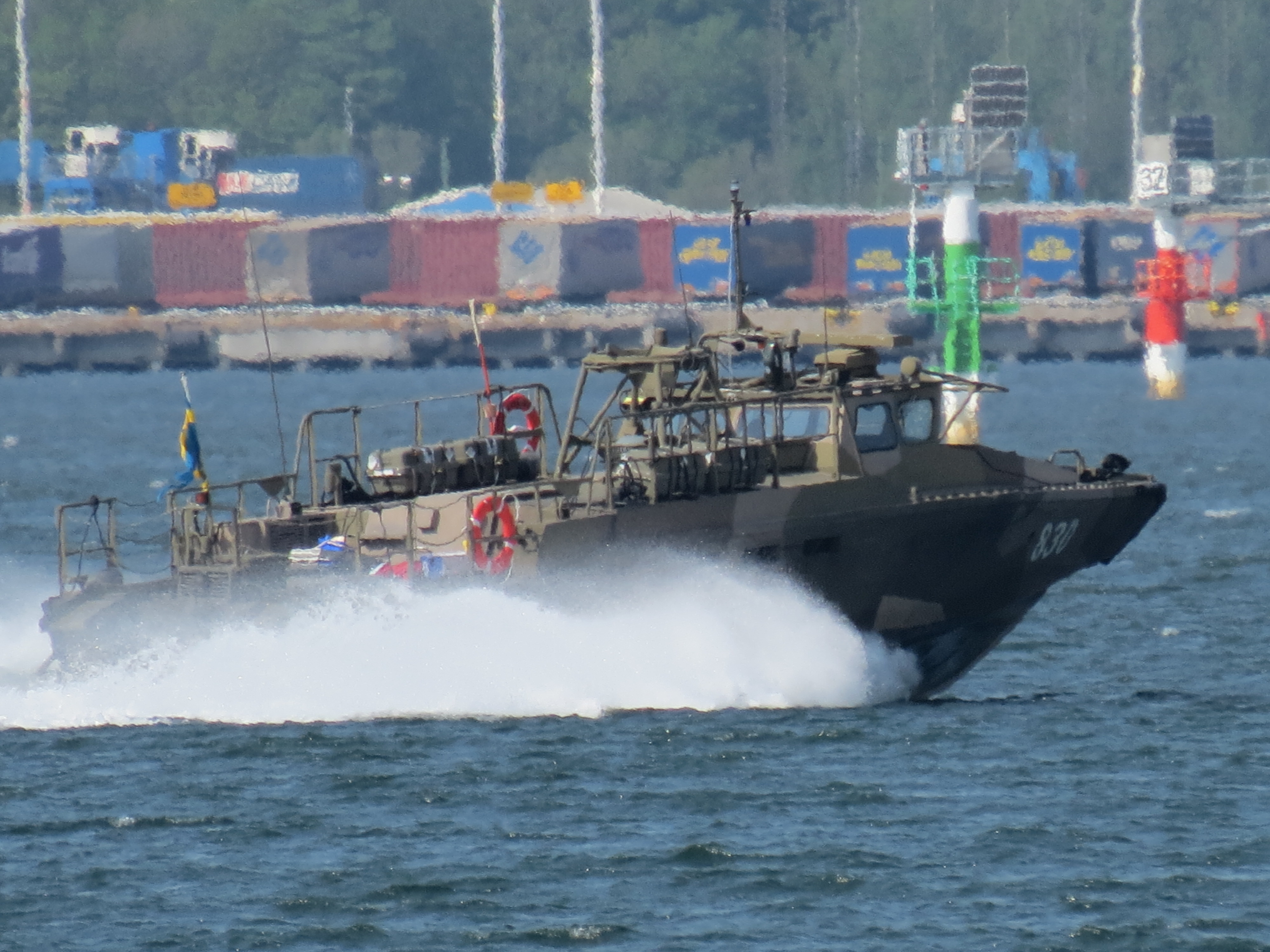 CB90 outside Långedrag, Gothenburg.